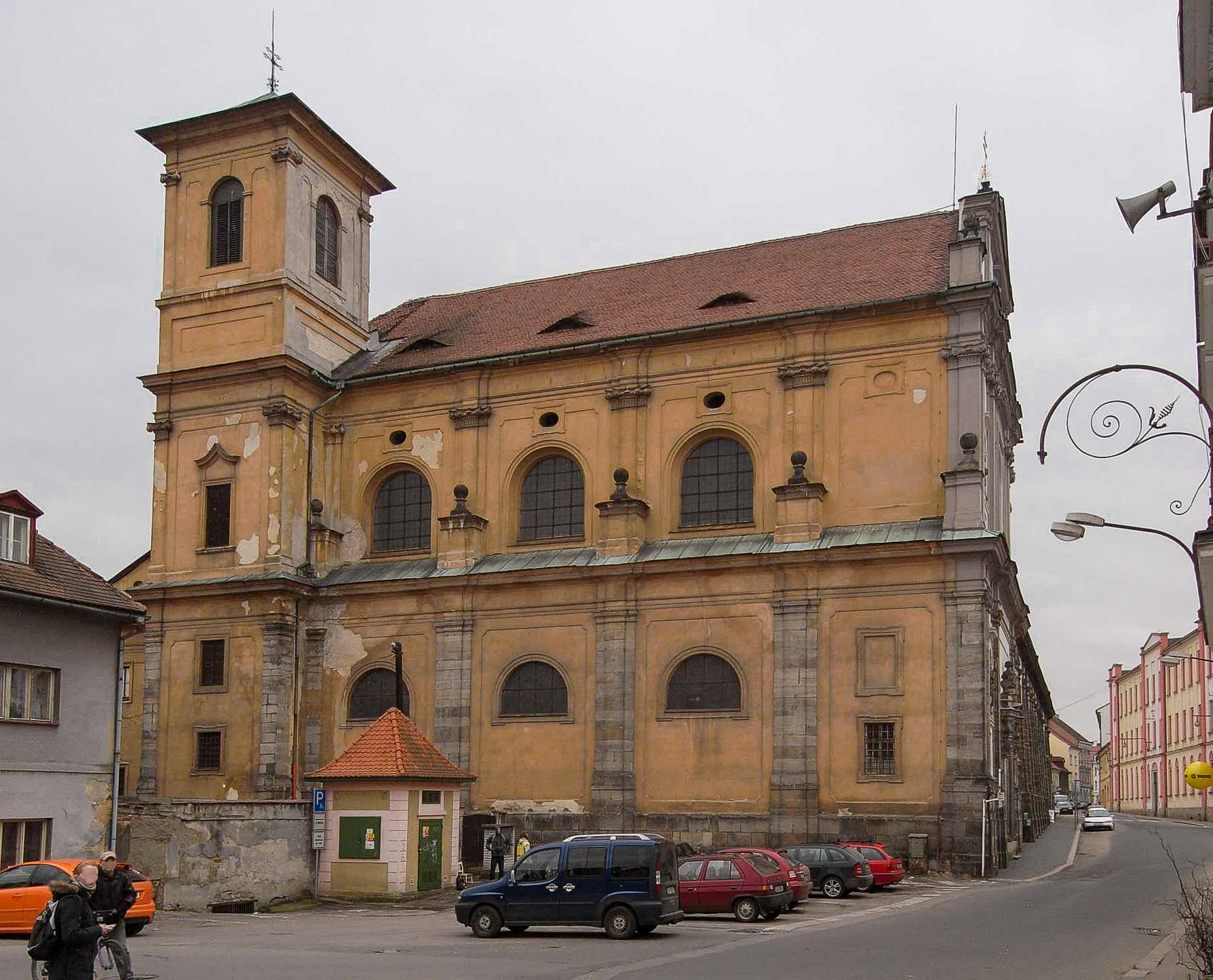 All Saints' Church of formerly Augustinian monastery (Česká Lípa, Czech Republic)